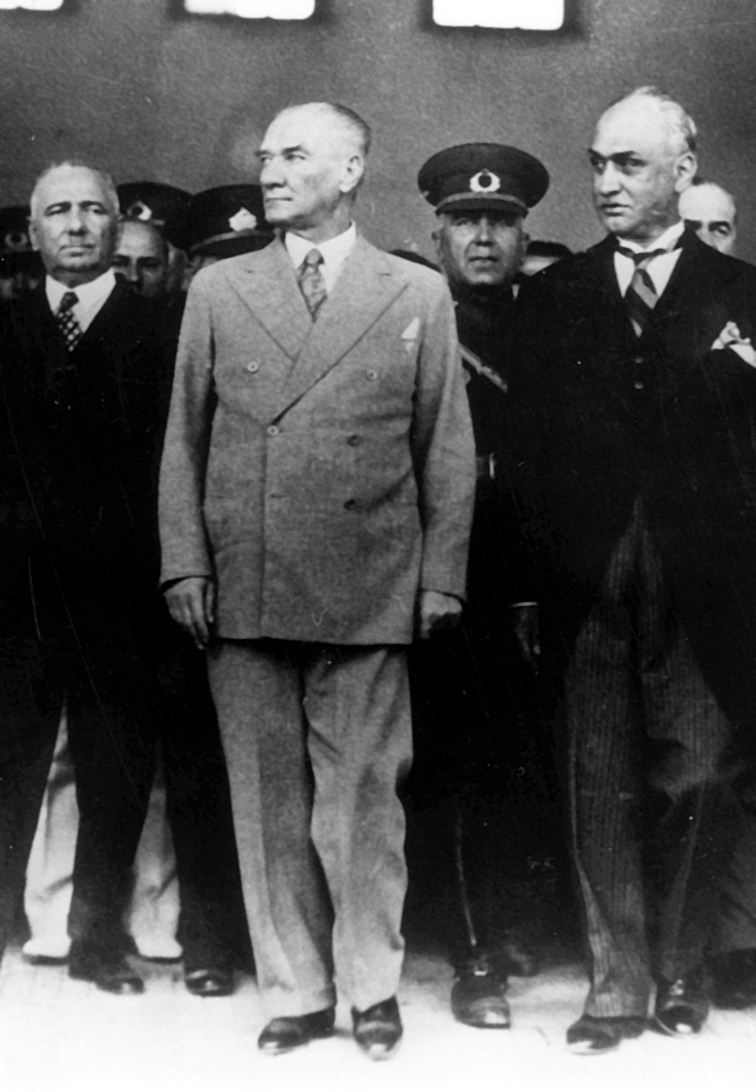 Atatürk's last visit to Adana, May 24, 1938.